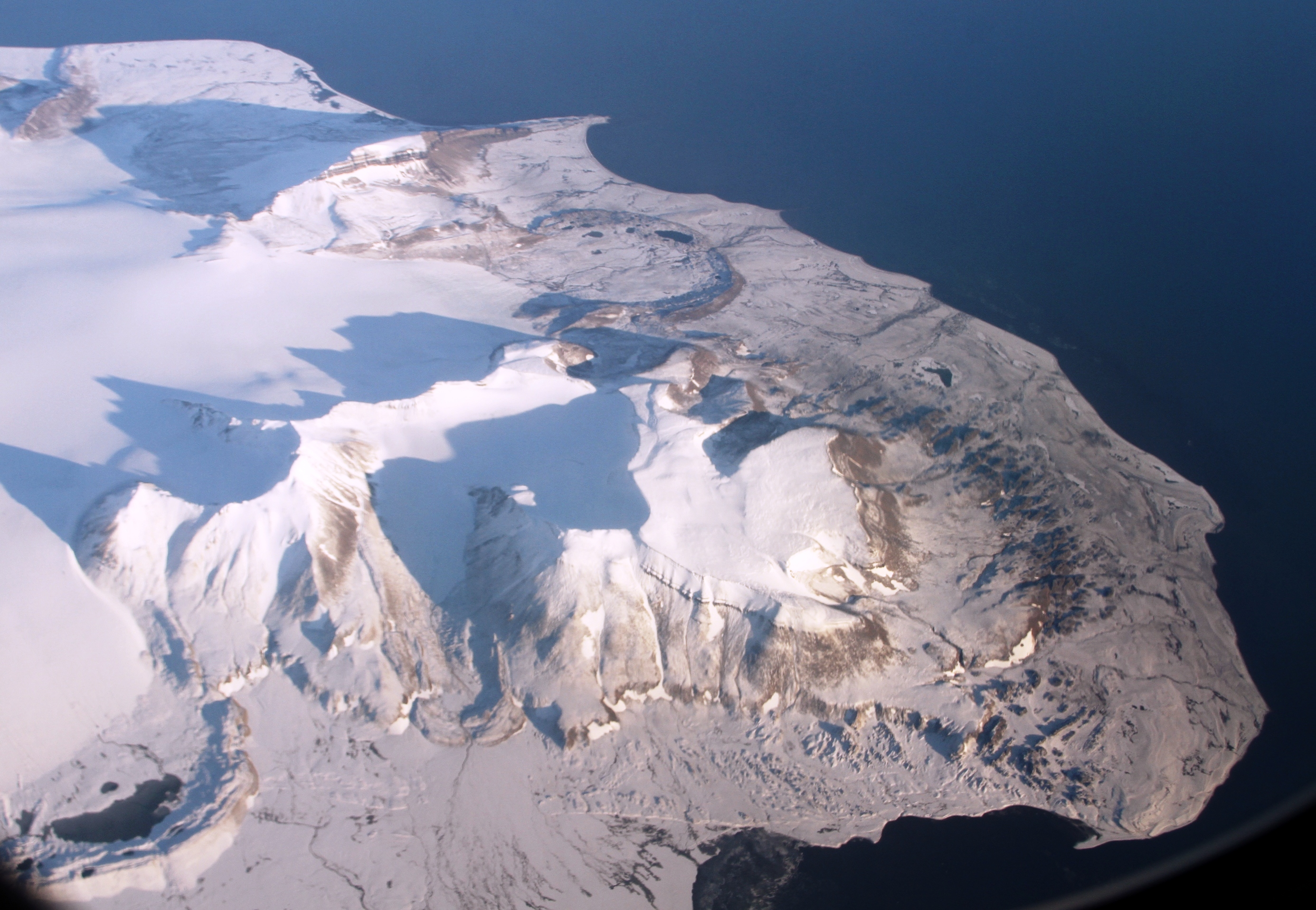 Mahtiasbreen and Kistefjell mountain, with end-morains from ice retreats. Sørkapp Land, Spitsbergen.